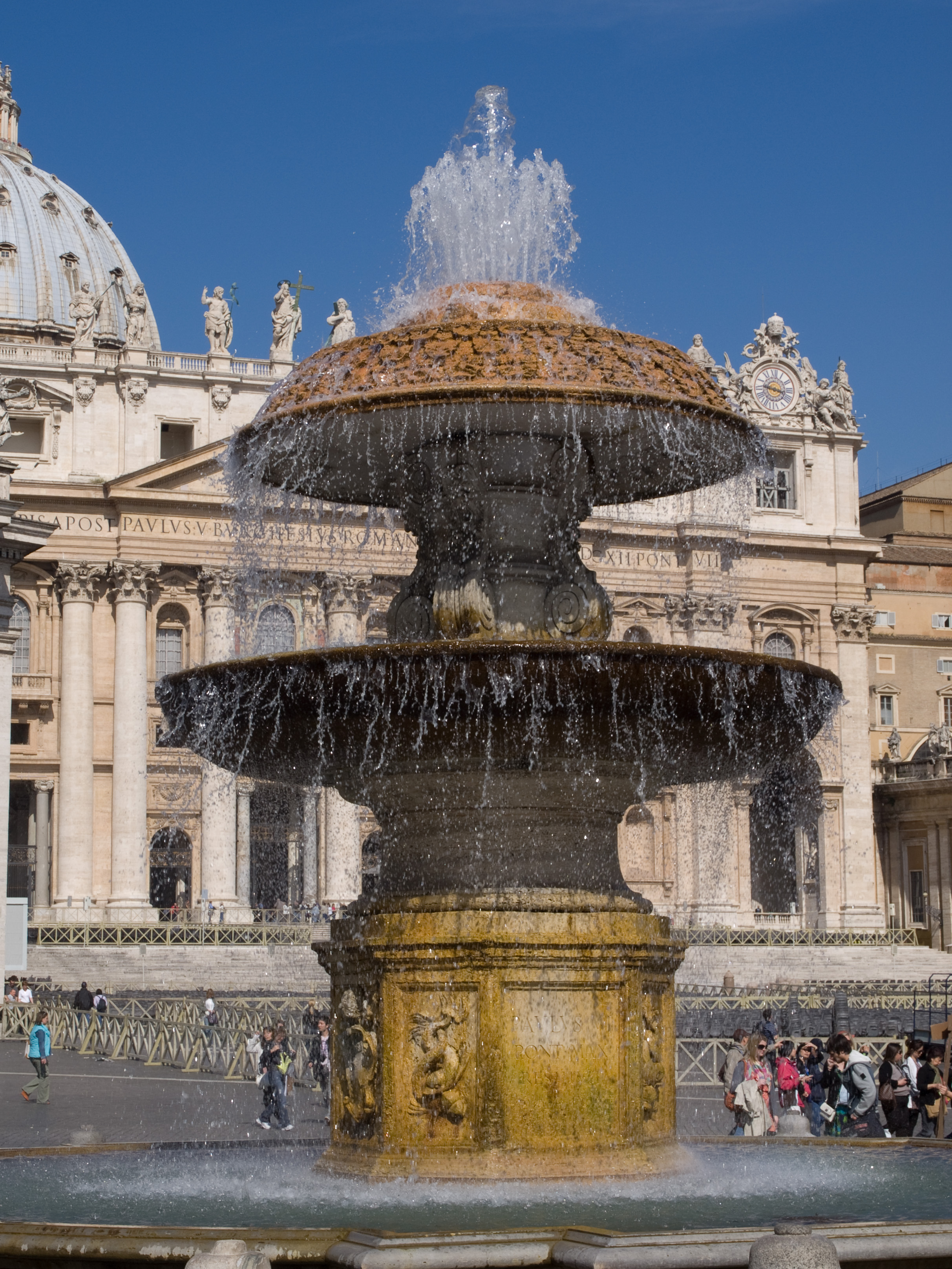 Fountain at Saint Peter's square, Roma